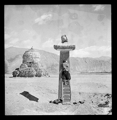 Richardson's orderly on a ladder propped against the inscription pillar ar Karcung. He is copying the inscription. One of the four reliquary monuments at the site is visible in the background.